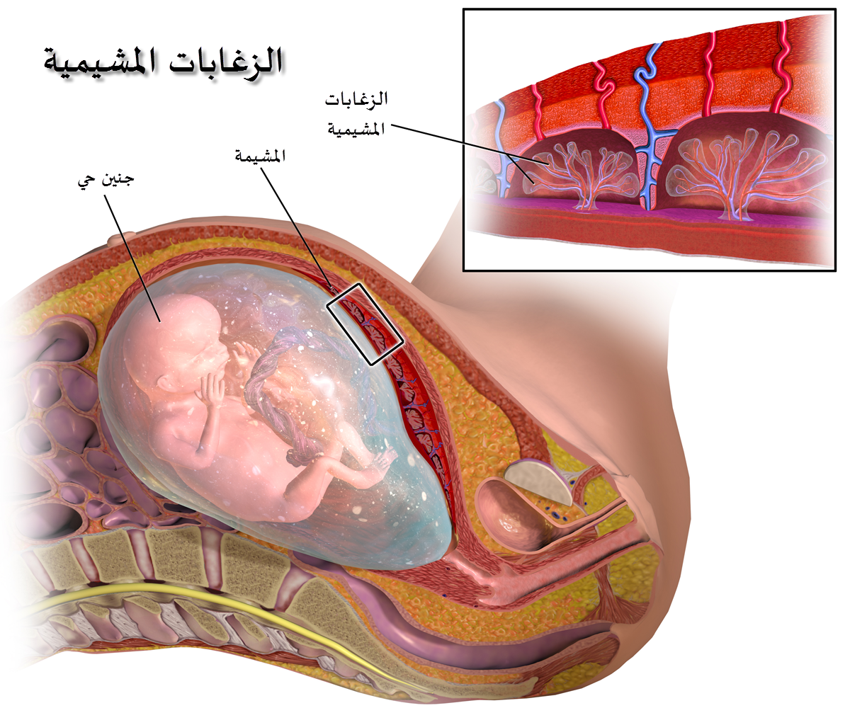 ChorionicVillus